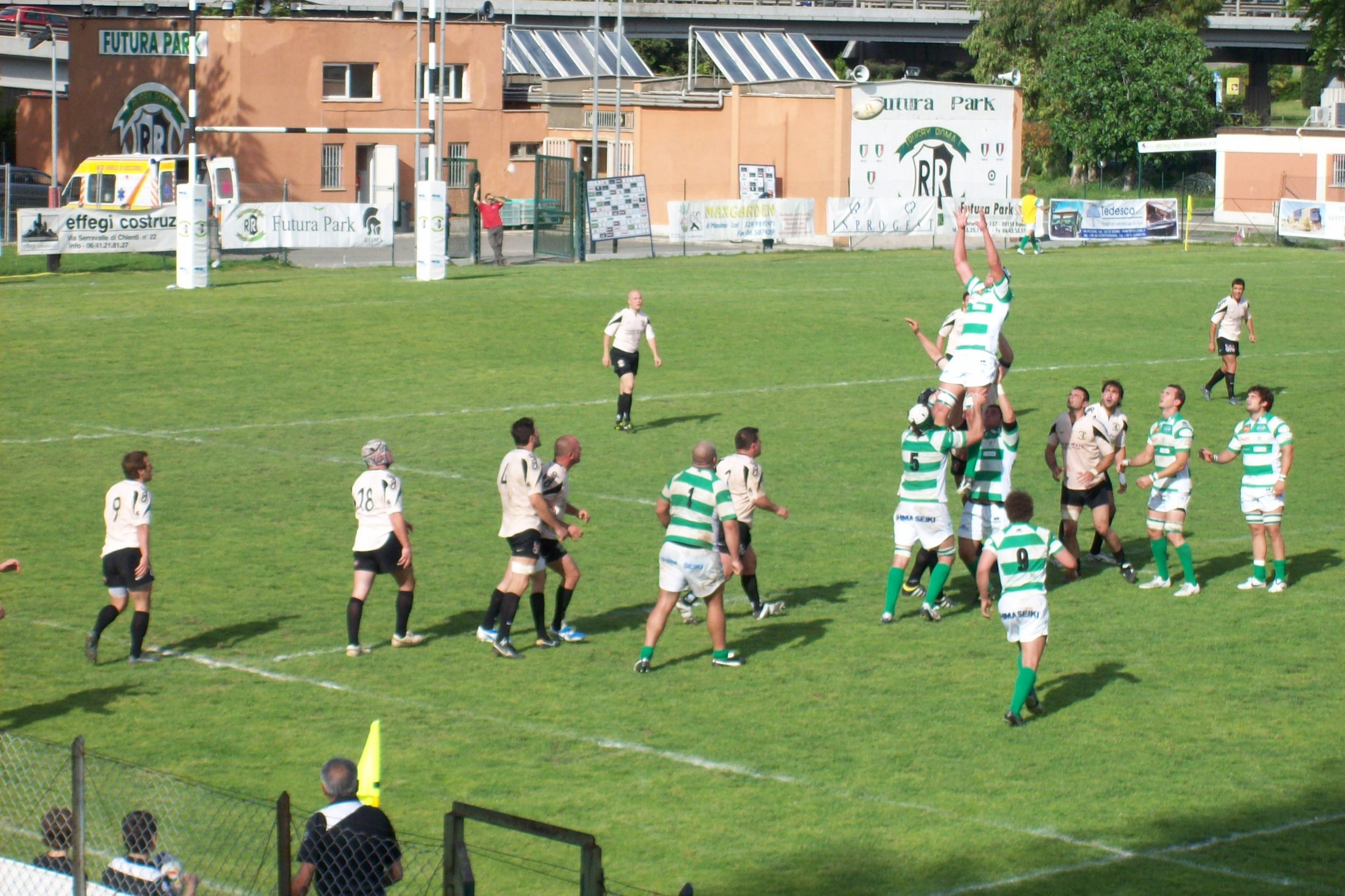 Super 10 2008-2009 — 9 May 2009, Rome, Stadio Tre Fontane. Match between: Rugby Roma — Benetton Rugby Treviso Rugby Roma and Benetton Rugby Treviso contest a touche during a Super 10 match in Rome.